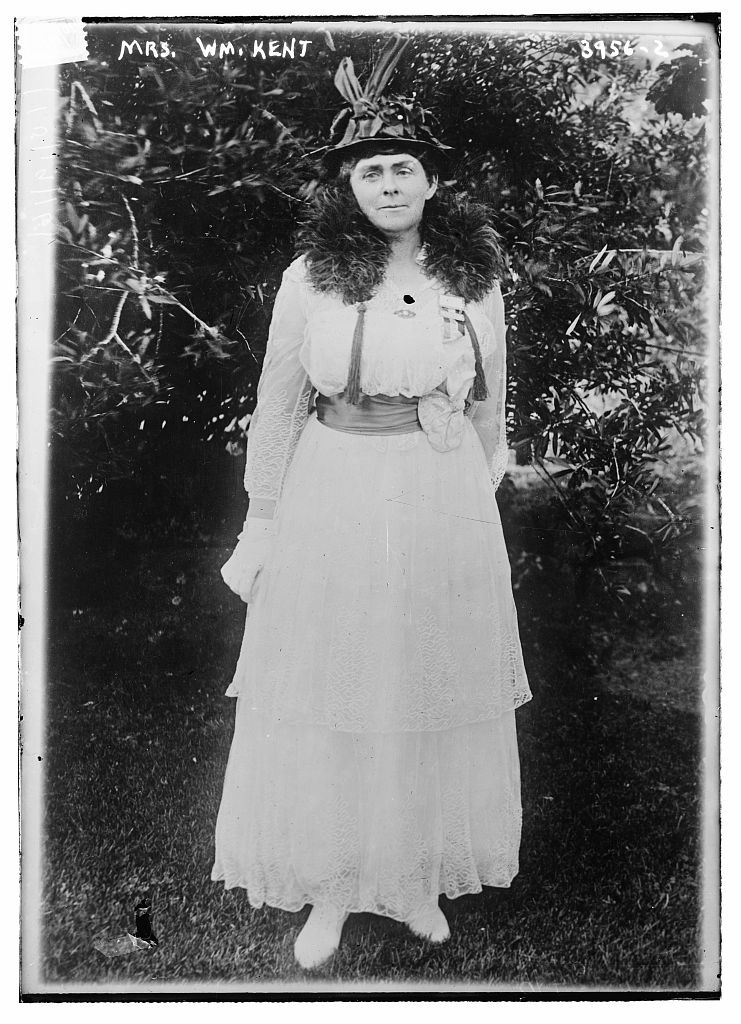 Elizabeth Thacher Kent (1868-1952) in 1916